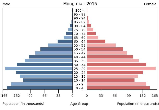 The population pyramid of Mongolia illustrates the age and sex structure of population and may provide insights about political and social stability, as well as economic development. The population is distributed along the horizontal axis, with males shown on the left and females on the right. The male and female populations are broken down into 5-year age groups represented as horizontal bars along the vertical axis, with the youngest age groups at the bottom and the oldest at the top. The shape of the population pyramid gradually evolves over time based on fertility, mortality, and international migration trends.